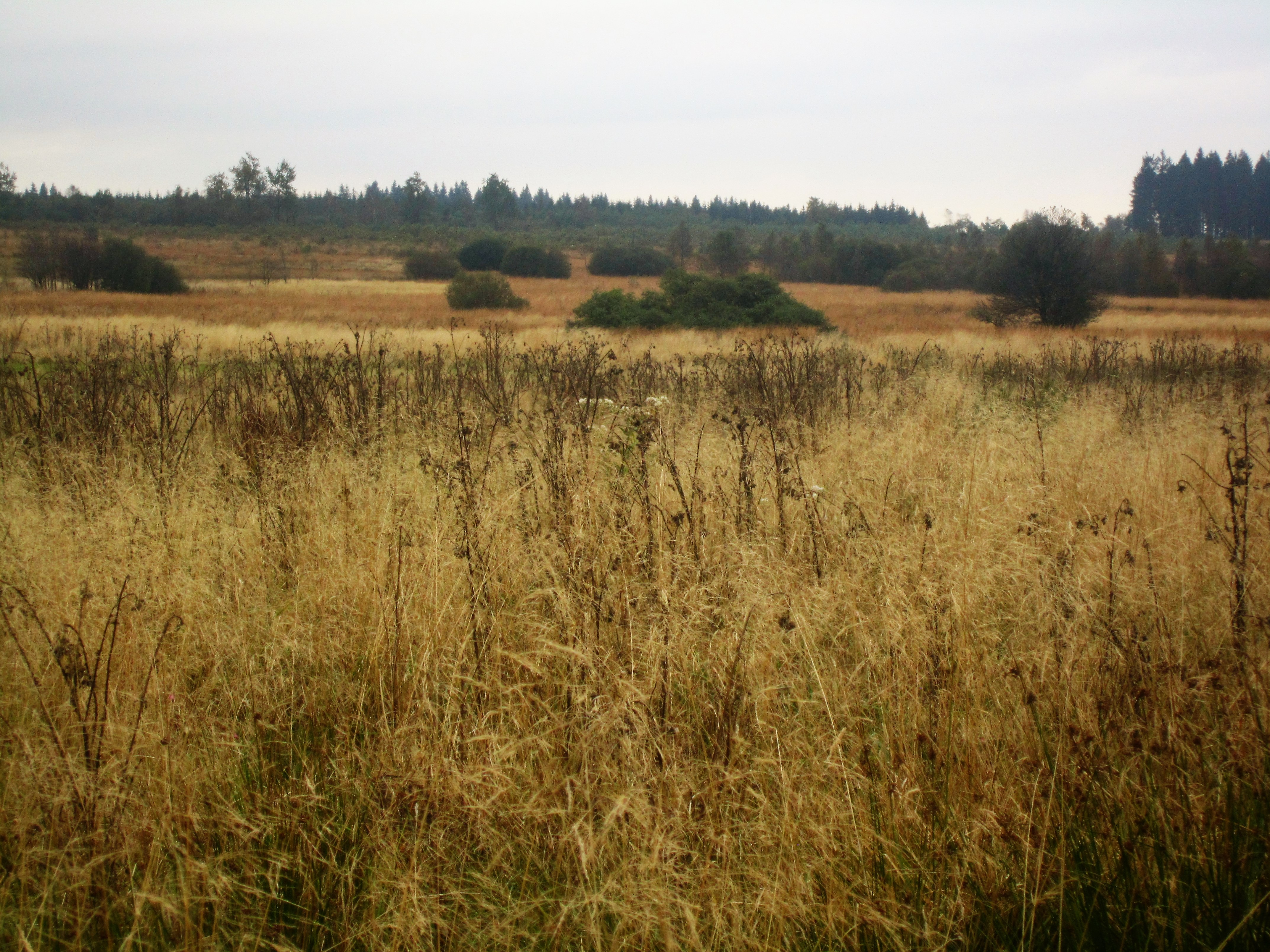 Fagne de la Poleûr behind the restaurant "Mont Rigi"